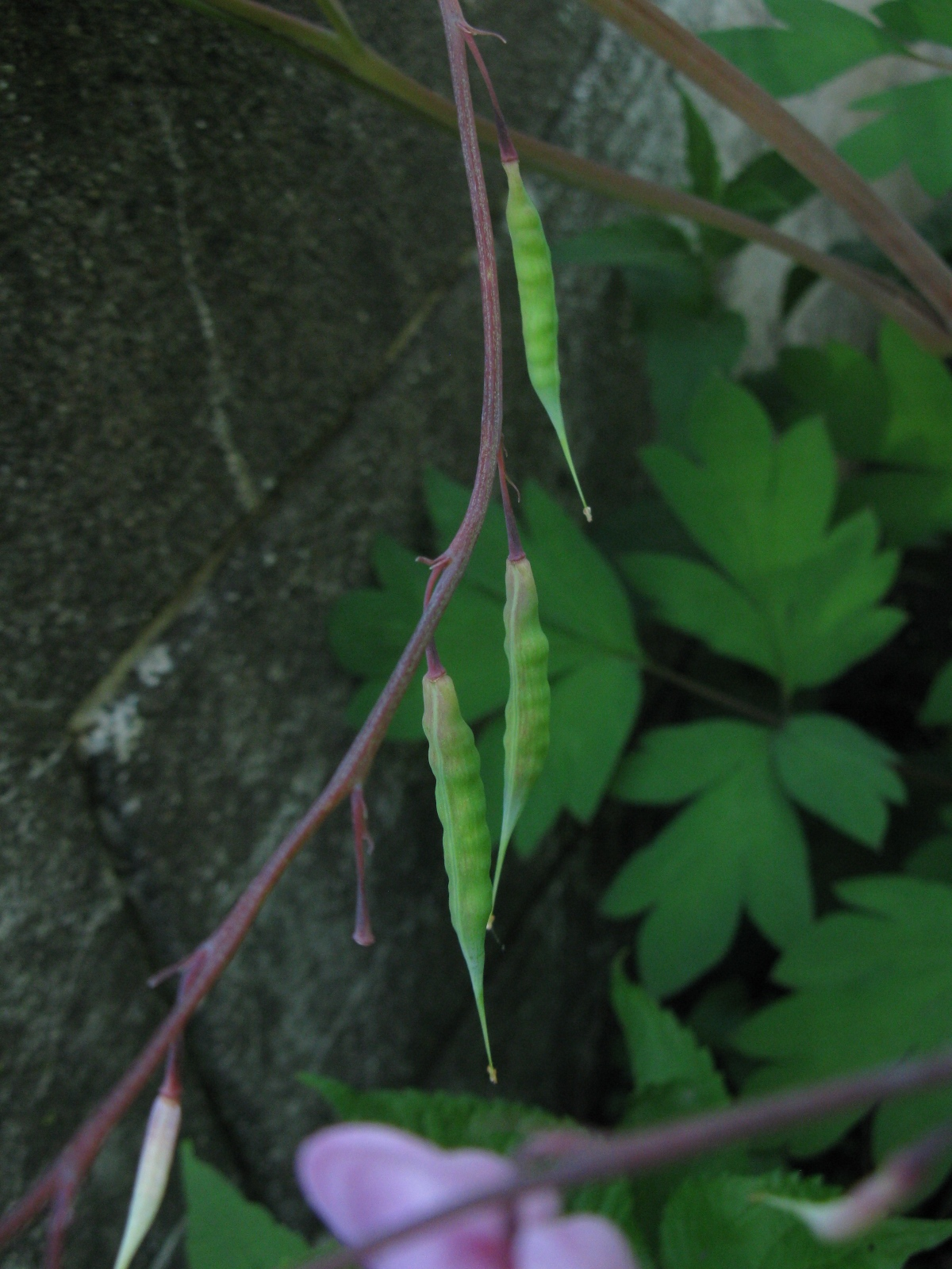 Bleeding-heart (Dicentra or Lamprocapnos spectabilis) seed pods